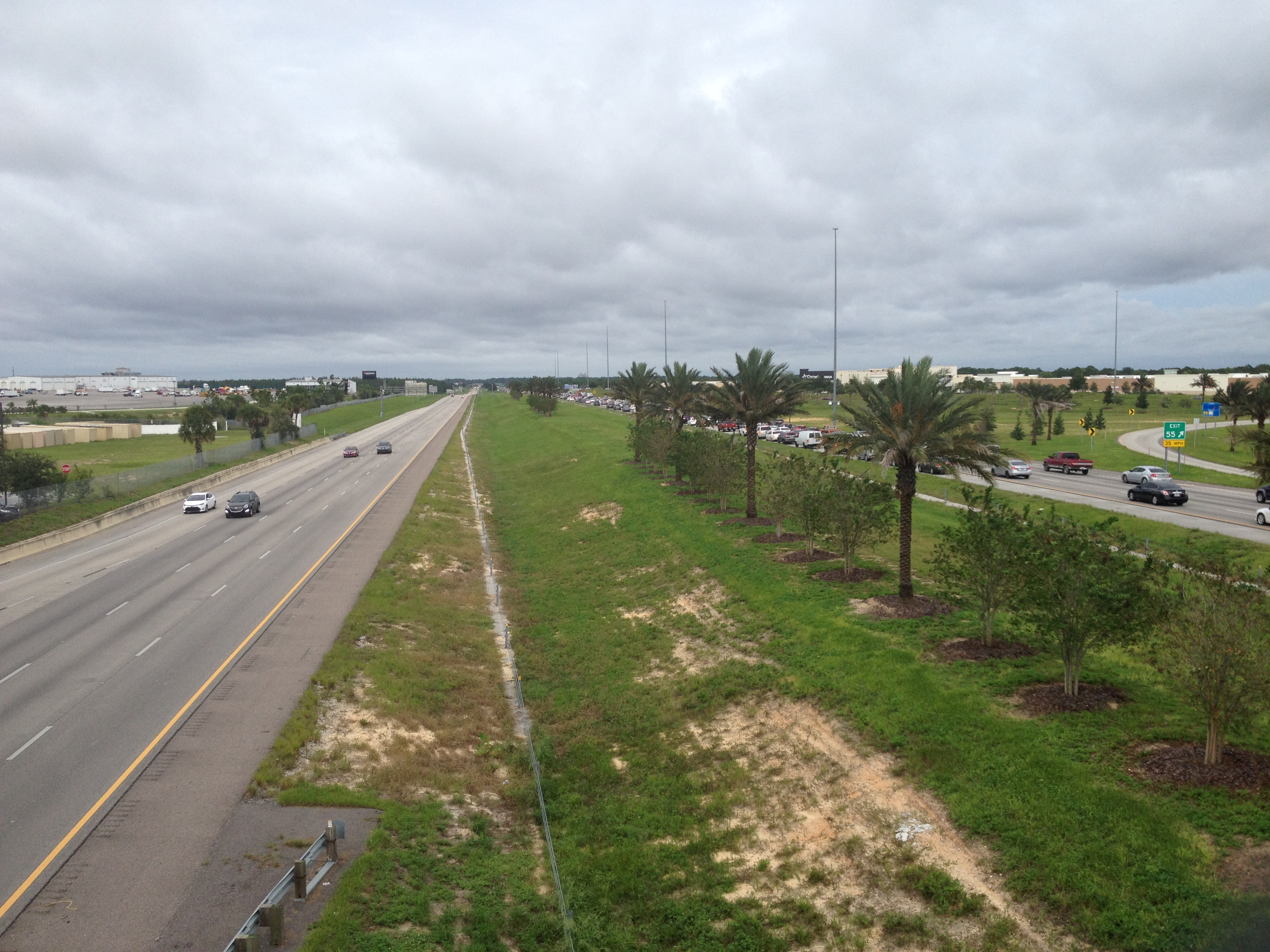 Interstate 4 viewed from the U.S. Highway 27 overpass (Davenport, Florida) on the afternoon of Saturday, September 9, 2017, which was the afternoon before the arrival of Hurricane Irma. The forecast track of Category 4/5 Hurricane Irma had been to make a turn from a westwardly track to a northerly track before making landfall in Florida and for most of the preceding week it was forecast to make landfall near Miami and travel inland up the east coast of Florida, but by late Thursday, as Irma did not begin curving towrds the north, the forecast track up the Florida Peninsula shifted west. By Friday evening, the forecast track was up the west coast, prompting a large volume of evacuees from the Tampa Bay area towards the Orlando area. On Saturday, the Governor authorized the Florida Highway Patrol and Florida Department of Transportation to initiate an emergency shoulder use plan on eastbound I-4 from U.S. Highway 41 in Tampa to State Road 429 on the southern side of the Orlando metropolitan area. The emergency shoulder use plan allowed moving vehicles (except trucks and buses) to use the left shoulder as a travel lane with a speed limit of 40 mph (64 km/h). The emergency shoulder use plan was implemented instead of contraflow.